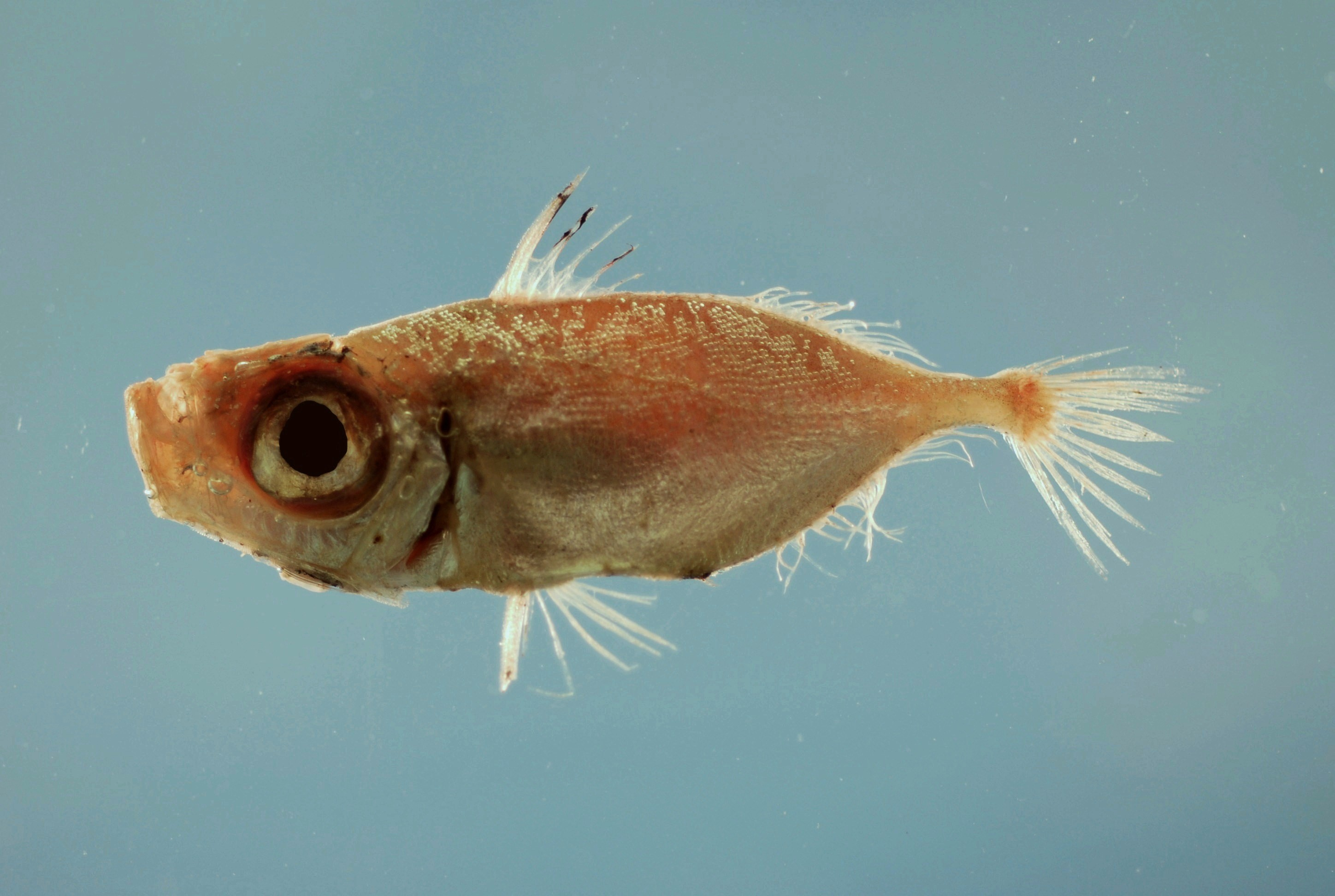 A species of boarfish or dory ( Zenion hololepis ) Image ID: fish4513, NOAA's Fisheries Collection Location: Gulf of Mexico Credit: SEFSC Pascagoula Laboratory; Collection of Brandi Noble, NOAA/NMFS/SEFSC